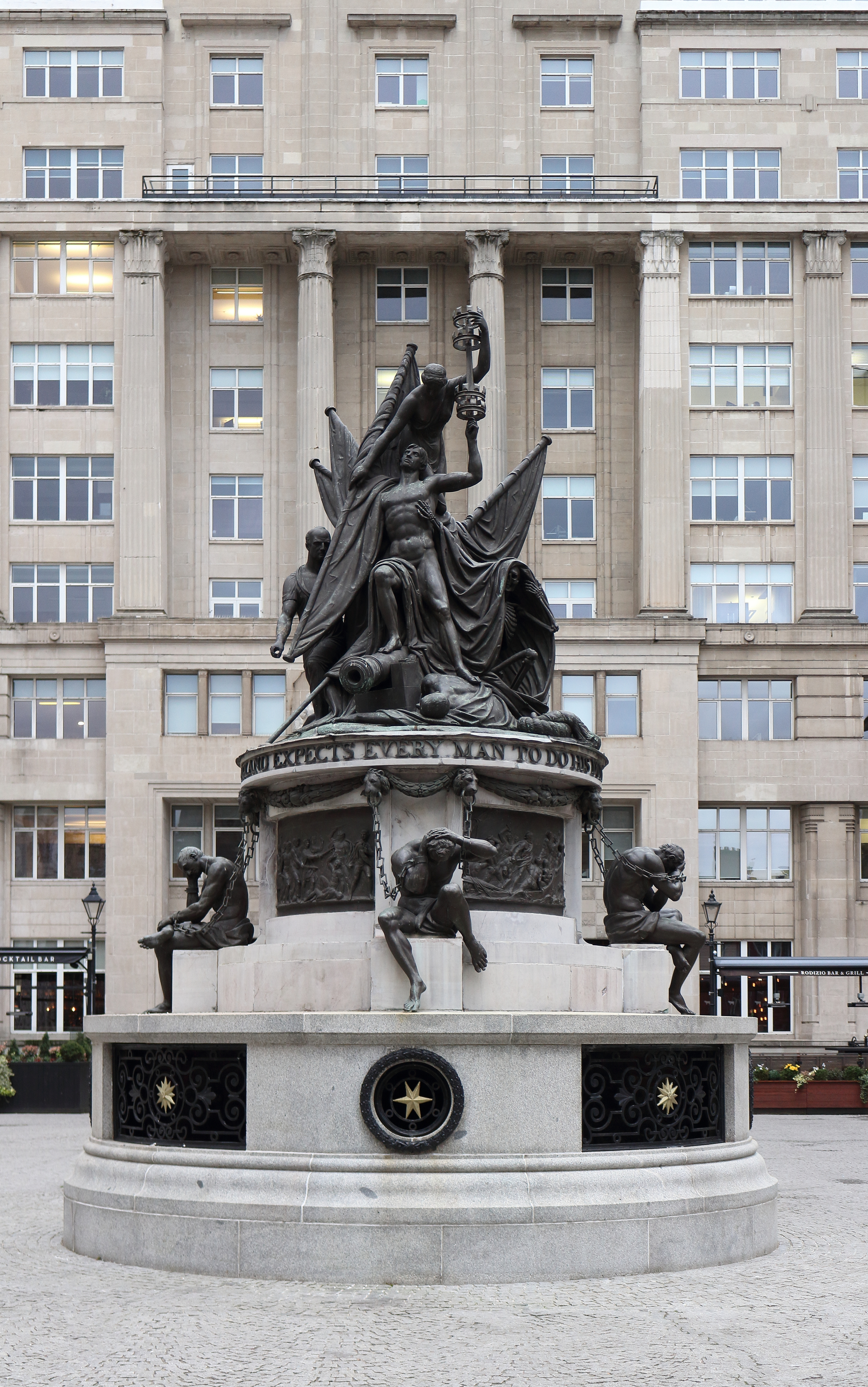 Front view of the monument